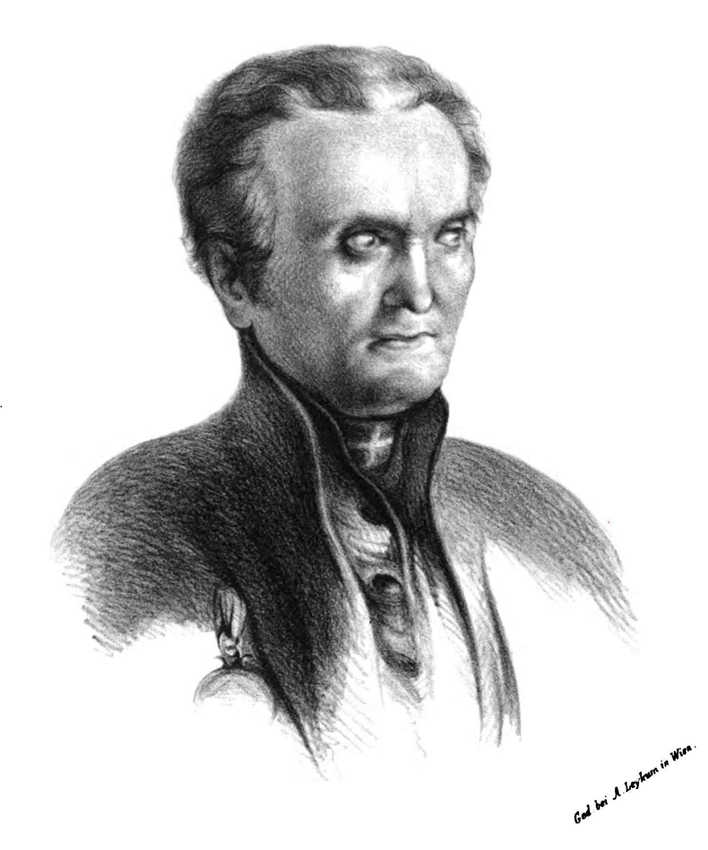 Franz von Paula Hladnik